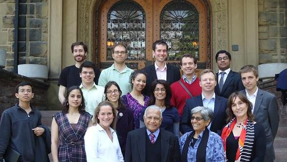 CISDL Members with H.E. Judge C.G. Weeramantry after the 2011 CISDL Strategic Scoping Retreat